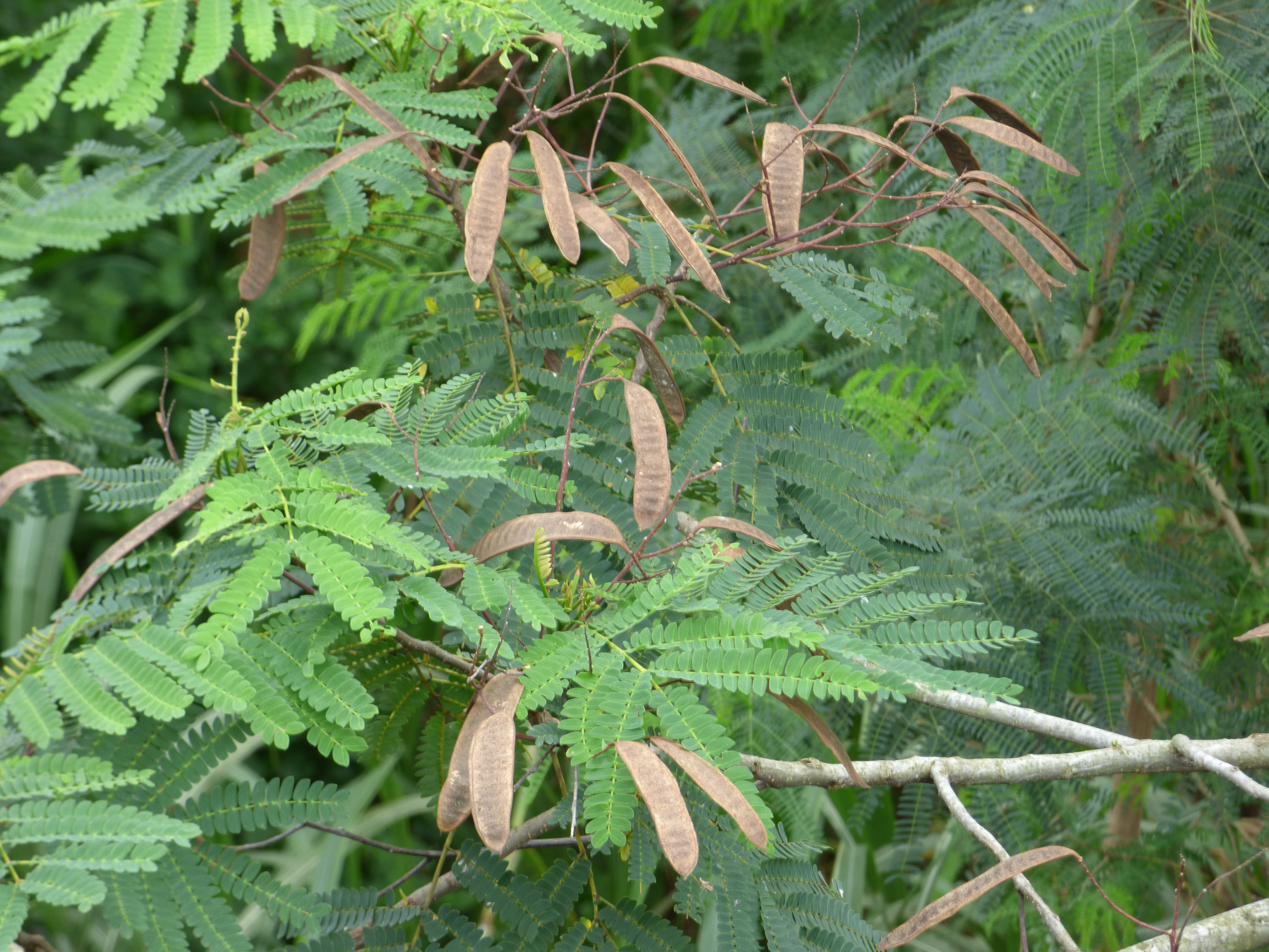 Falcataria moluccana. Mature seedpods and leaves. Waihee, Maui, Hawaii.